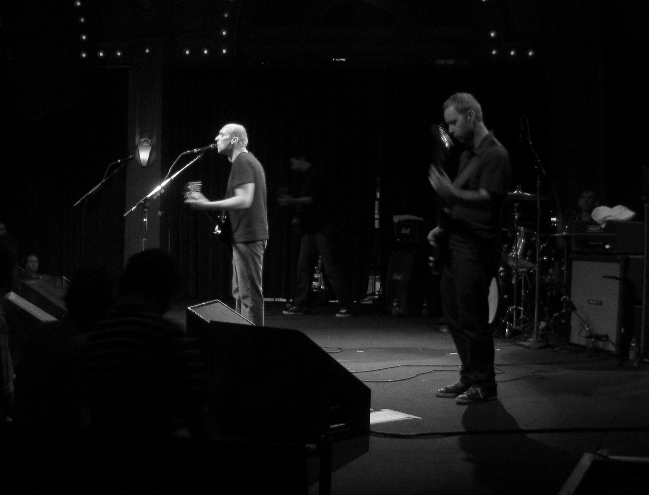 American emo band Sunny Day Real Estate performing in Portland following their reunion in 2009.